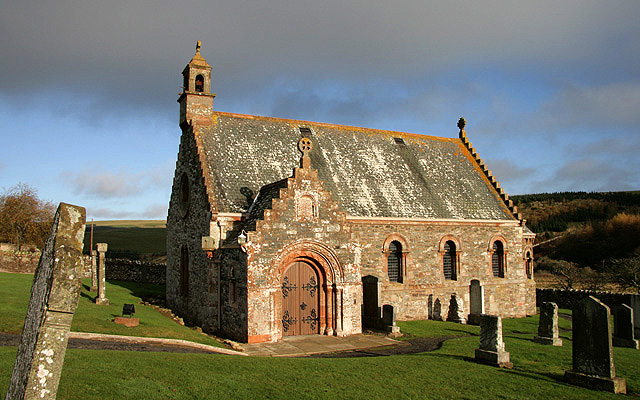 Cranshaws Parish Church The church is set within a walled enclosure and dates back to 1899 with some fragments incorporated from a previous church of 1739 on the same site.